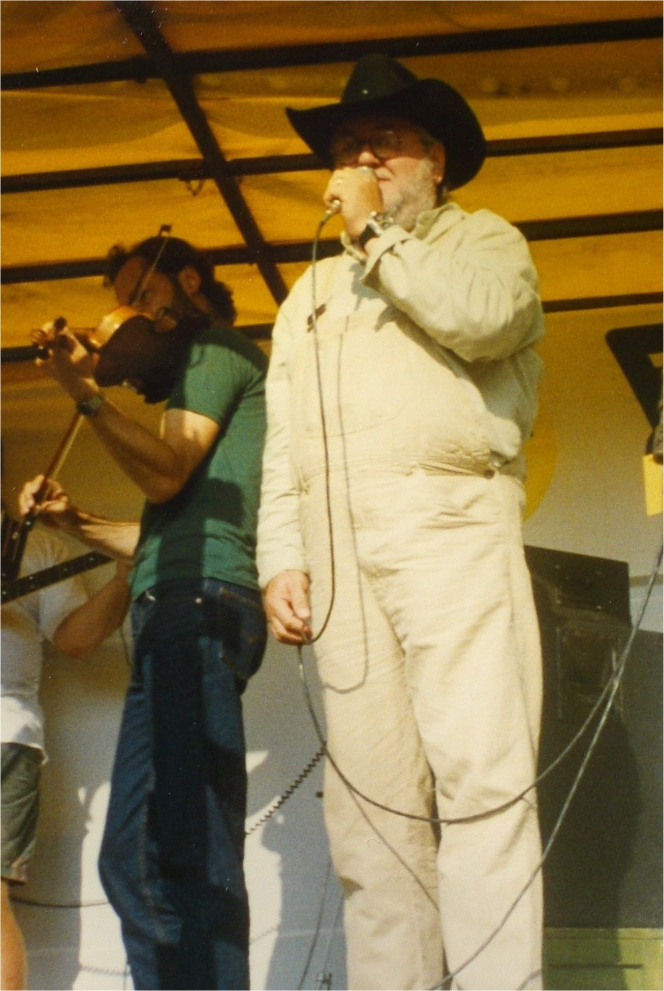 Czech muscican Michal Tučný, Czech Republkic. Photographed by old camera....